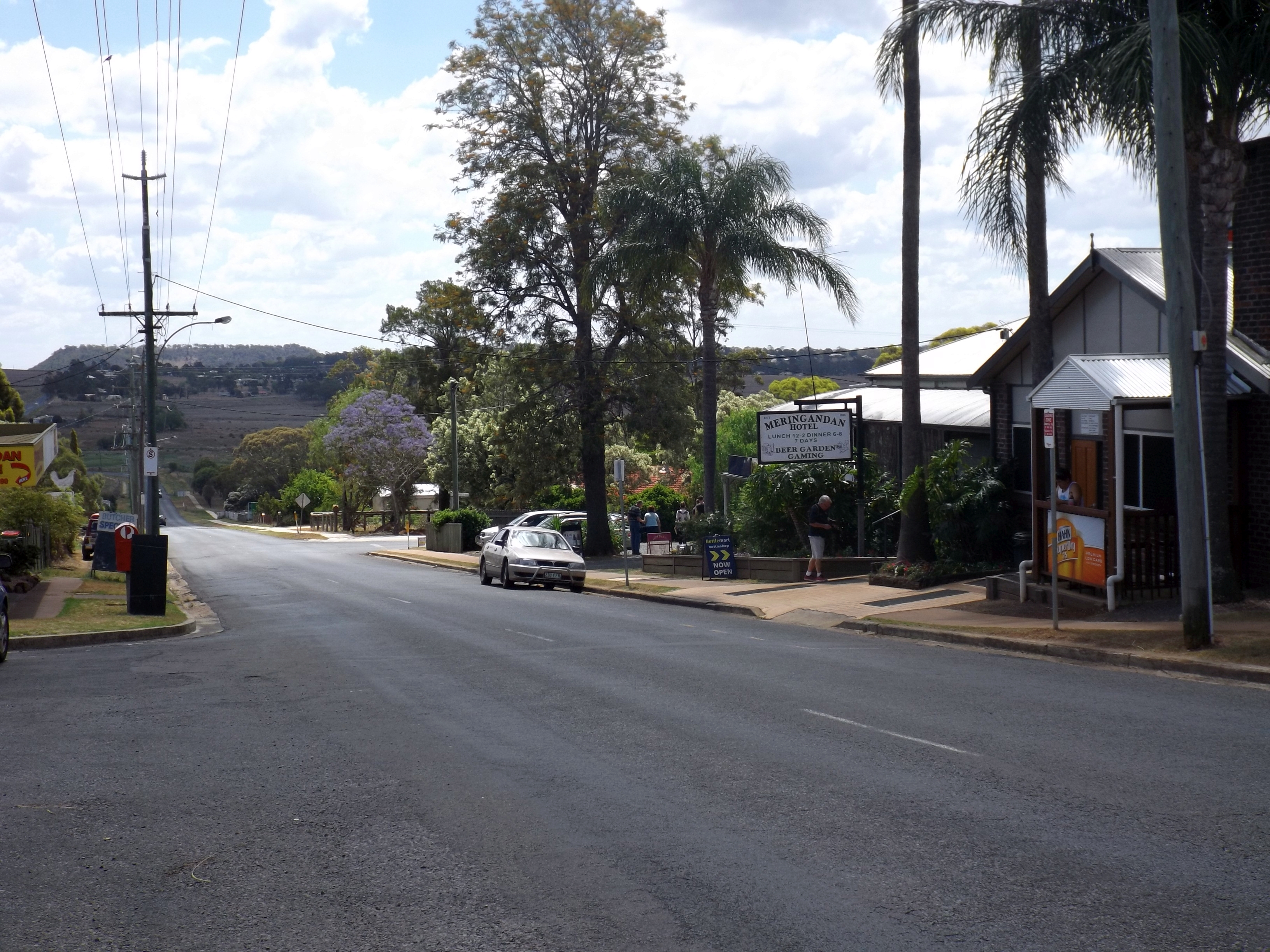 Photo of Main Street at Meringandan in the Toowoomba Region on the Darling Downs in Queensland, Australia.